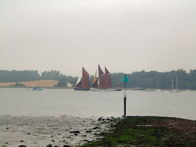 Orwell river; Pin Mill Barge Match.